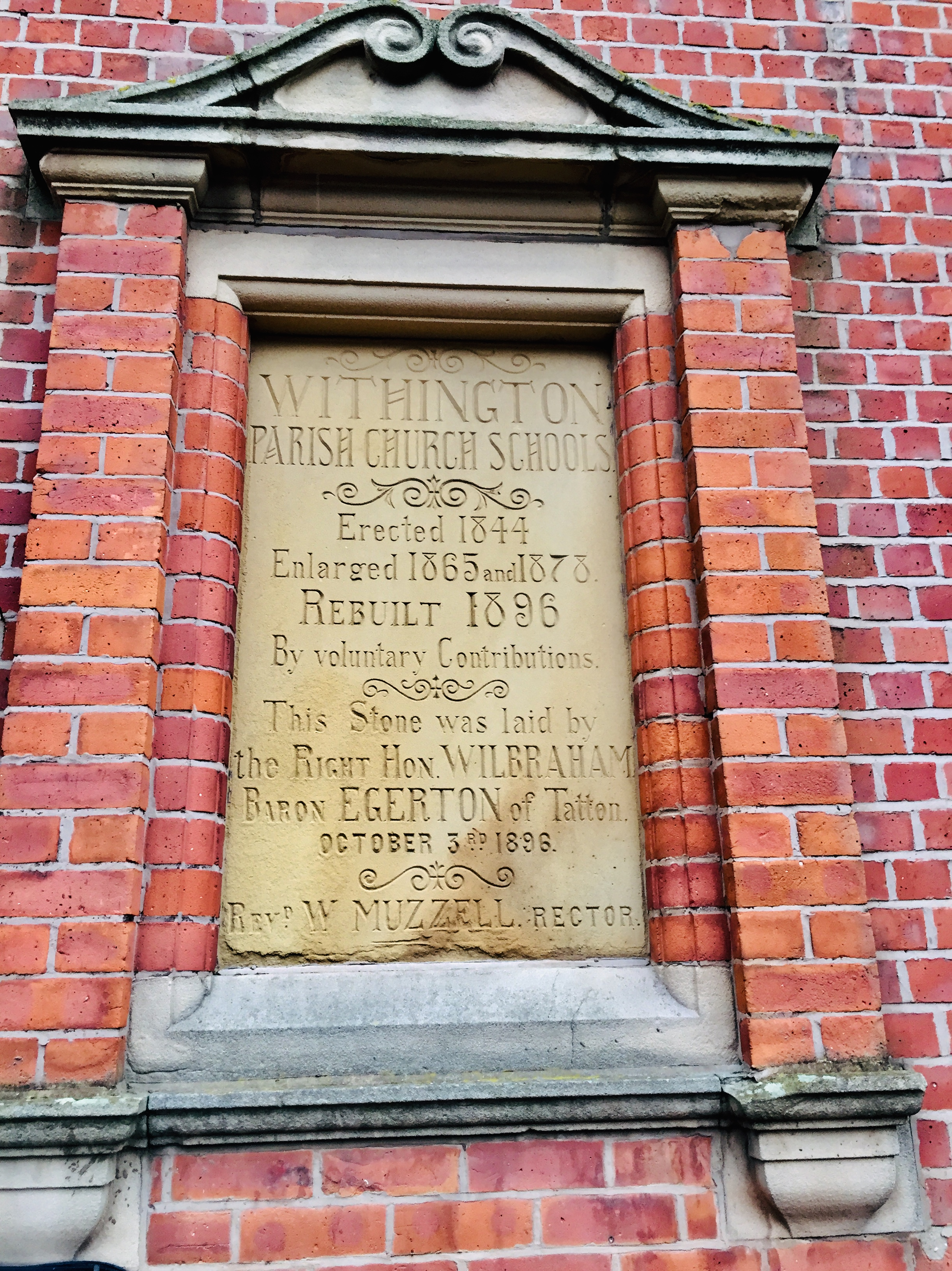 Foundation stone outside the old St Paul’s Primary School in Withington, Manchester (1896 building). Inscription reads: Withington Parish Church SchoolsErected 1844Enlarged 1865 and 1878Rebuilt 1896 by voluntary contributionsThis stone was laid by the Right Hon. WILBRAHAM Baron EGERTON of TattonOctober 3rd 1896Revd W MUZZEL Rector